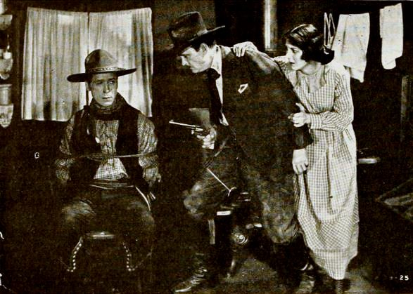 Still from the American western film Square Deal Sanderson (1919) with William S. Hart, Ann Little, and Frank Whitson (1877 – 1946), on page 1996 of the June 28, 1919 Moving Picture World.